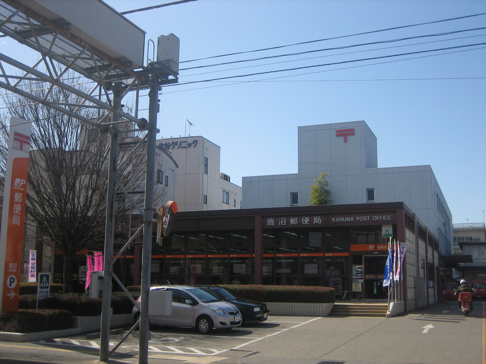 Kanuma post office in Tochigi, Japan